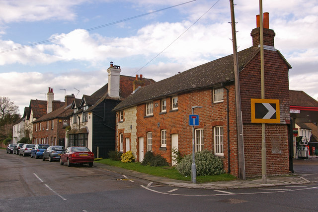 Quality Street, Merstham Quality Street, some of whose buildings date back to the 16th century, was once a continuation of the High Street - the main road (the A23) now veers off to the right at this point, hence the chevron on the right of the picture. The street was named at the start of the 20th century after the 1902 JM Barrie play 'Quality Street', two of whose original actors, Ellaline Terris and Seymour Hicks, lived in the Old Forge.